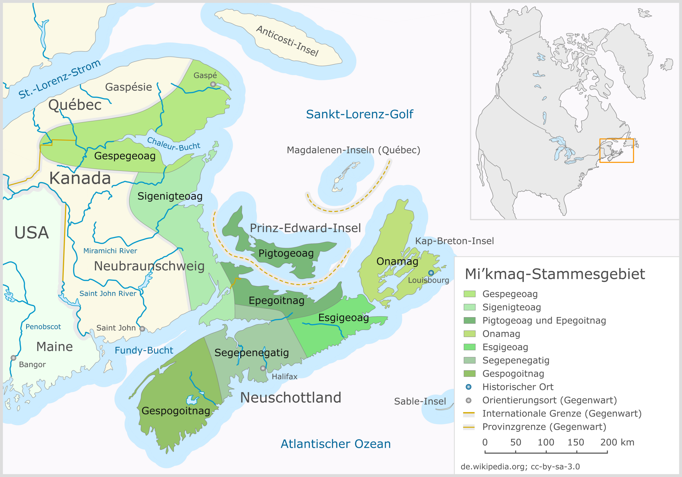 Former settlement areas of the seven Mi'kmaq branches